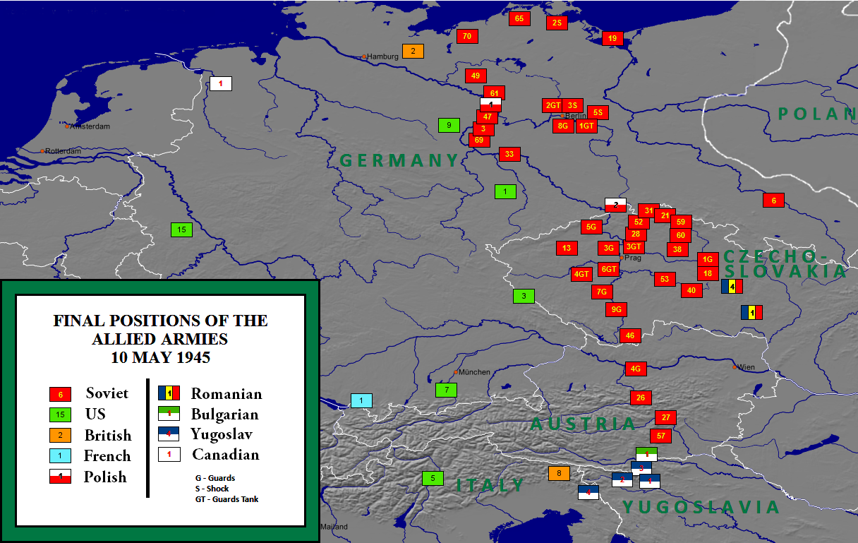 Allied army positions on 10 May 1945